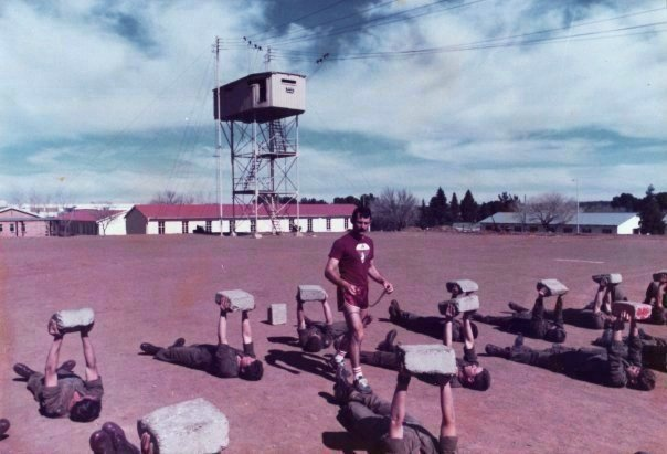 1982 Para Qualification Course Image 1